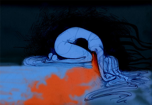 Sketch of slumped female depicting Chronic Fatigue Syndrome